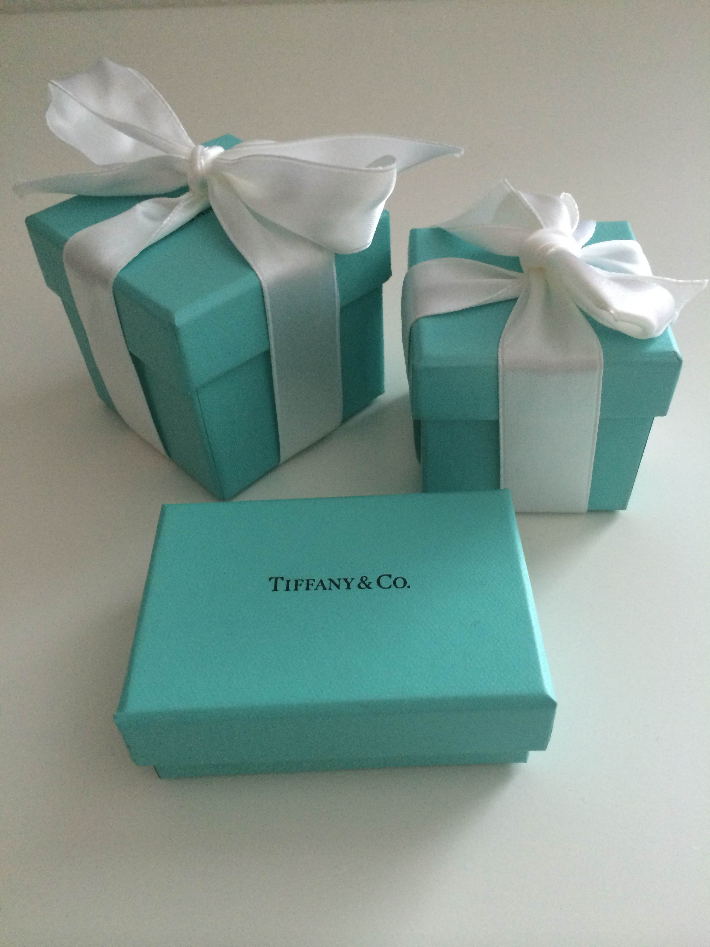 tiffany box 2